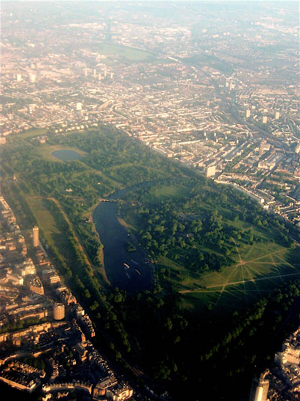 An aerial shot of Hyde Park, London